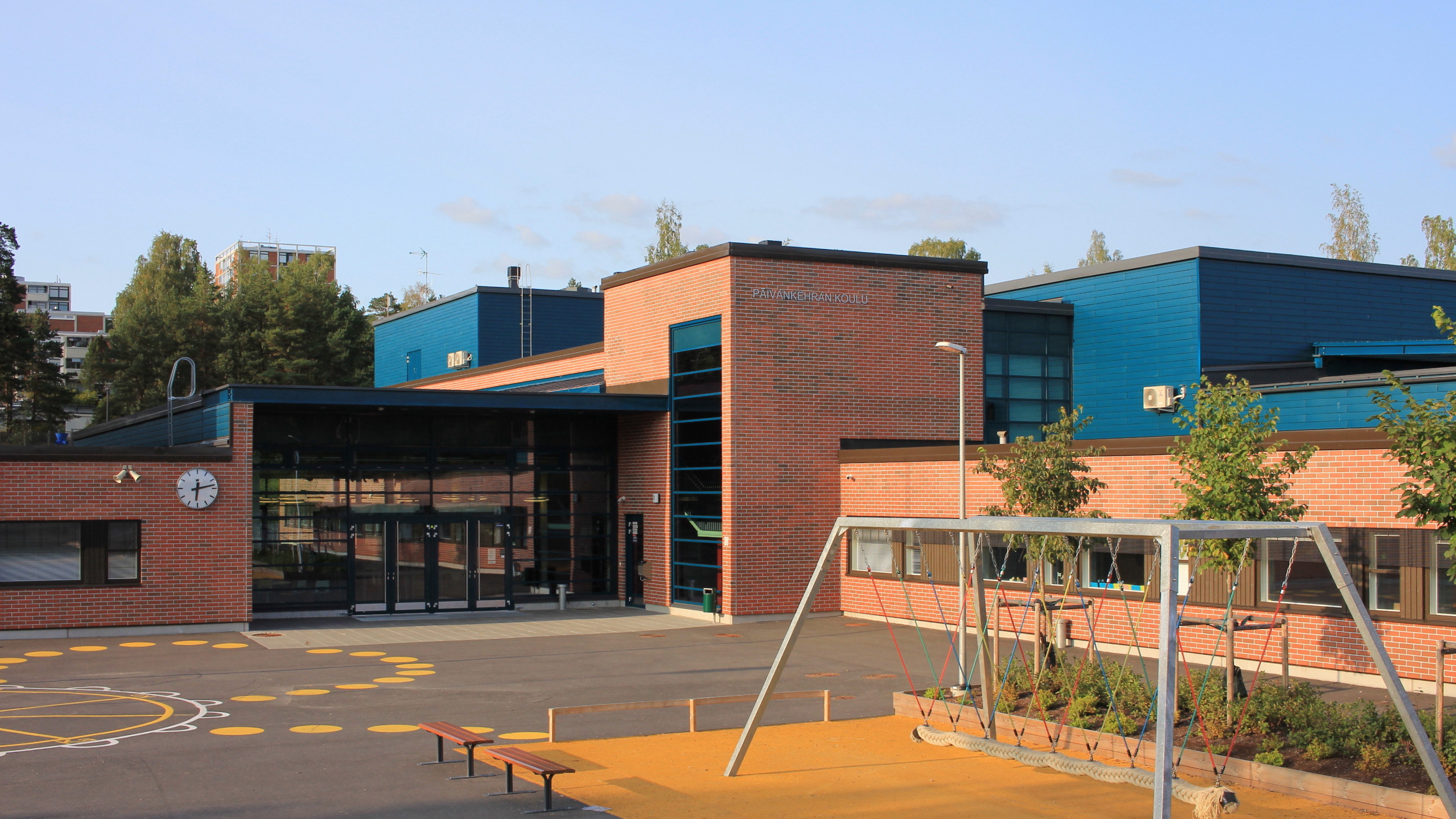 Päivänkehrä primary school, Espoo, Finland. - Main entrance, seen from southwest.